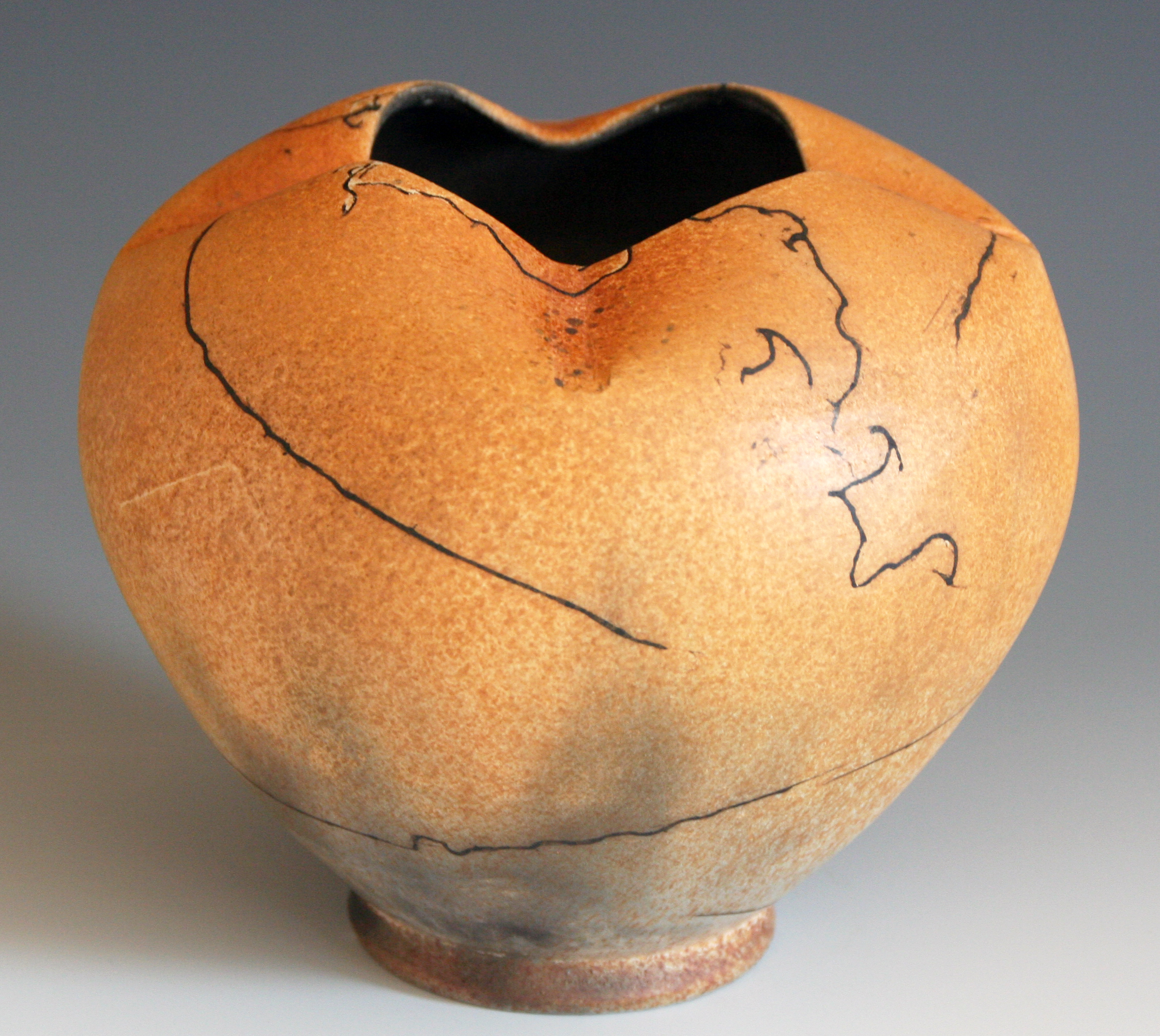 Horsehair Raku Technique: taking out of the kiln at 1350F and putting horsehair on the pot which burns into it. Putting the pot on a tissue will give smoke effects on the pot. The yellowish color is from spraying ferric chloride on the put while it is hot.